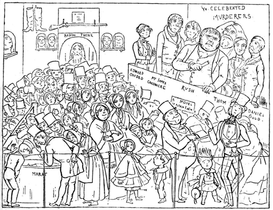 'MADAME TUSSAUD HER WAX WERKES. YE CHAMBER OF HORRORS!!', taken from Manners & Cvftoms of ye Englyfhe (1849)